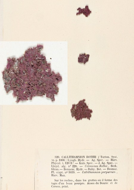 « Callithamnion rothii » = Rhodochorton purpureum